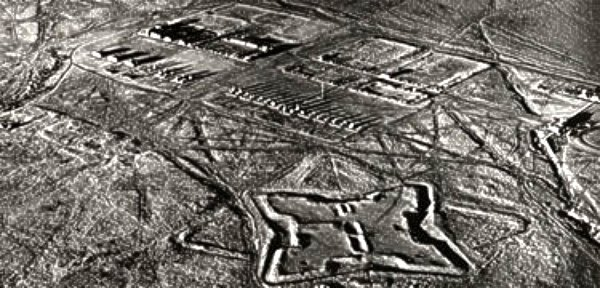 Fort Union, New Mexico - today Fort Union National Monument, airial view in the 1950s. Foreground: remnants of the fortified second fort, background: ruins of the third fort, build from adobe.